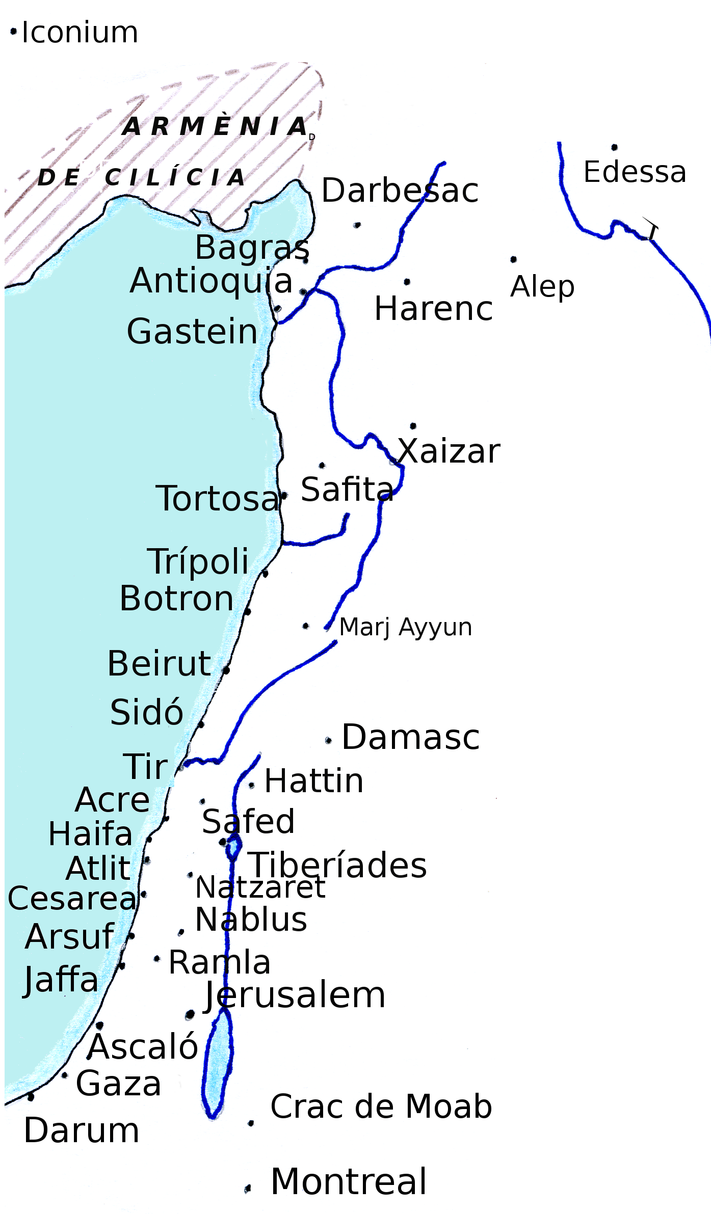 Cities of the Levant in the period of the Crusades.